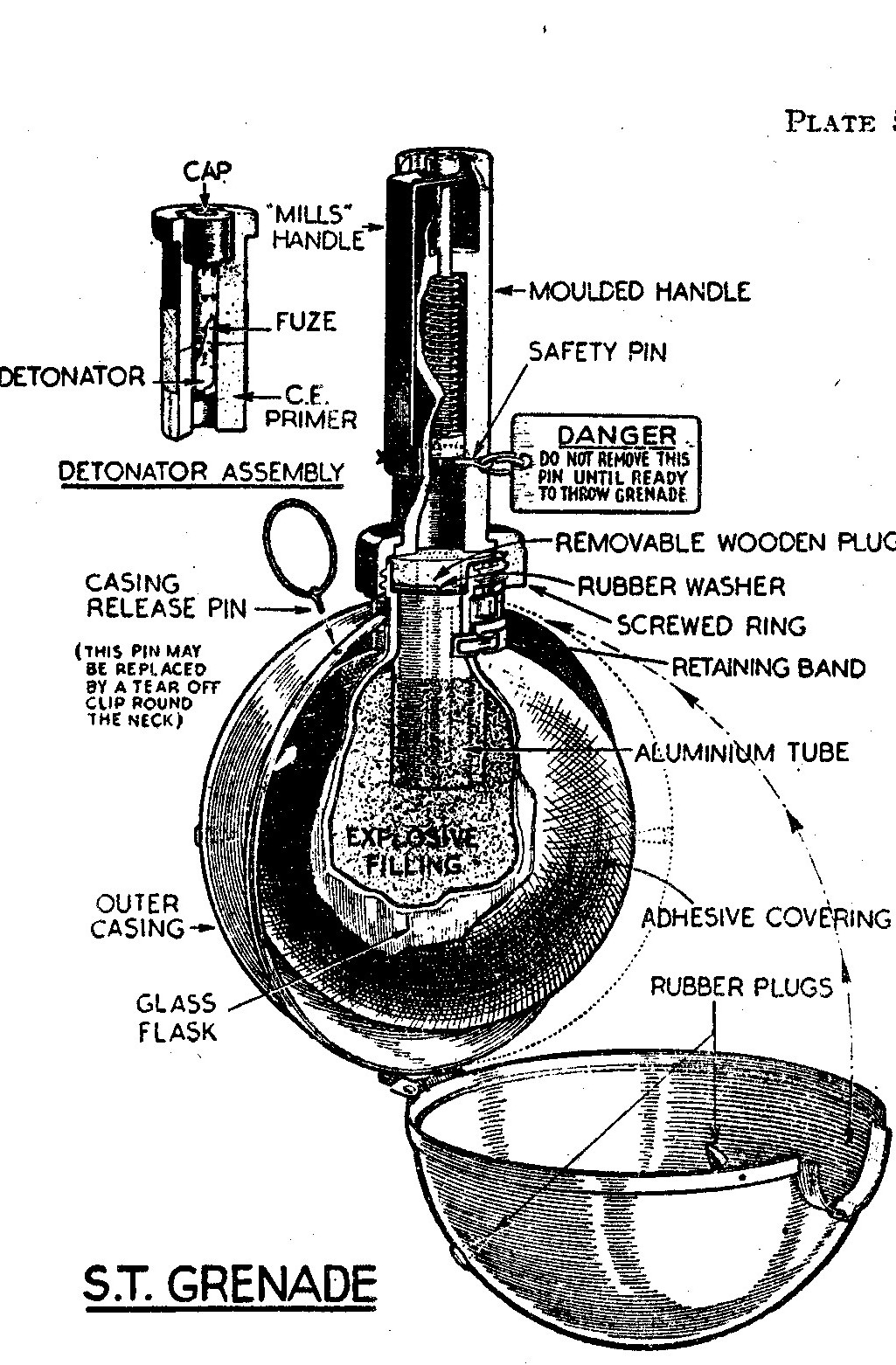 Sticky Bomb